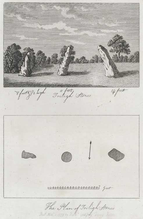 View and plan of the standing stones at Trellech.